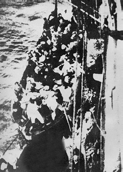 Smyrna massacre, 1922. A boat full of refugees leaving Smyrna